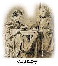 Dr. Robert Reid Kalley and Sarah Poulton Kalley, founders of the Church Evangelical Congregational, Evangelical church in the first language Portuguese in Brazil in the year 1855.